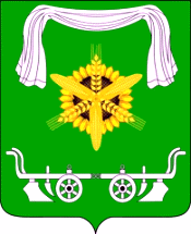 Coat of arms of Kubanskaya, Apsheronsk Raion, Krasnodar Krai, Russia.